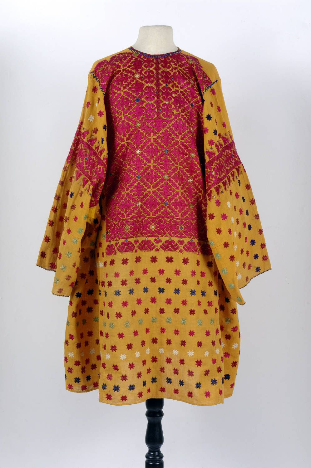 Collected by Josephine Powell.